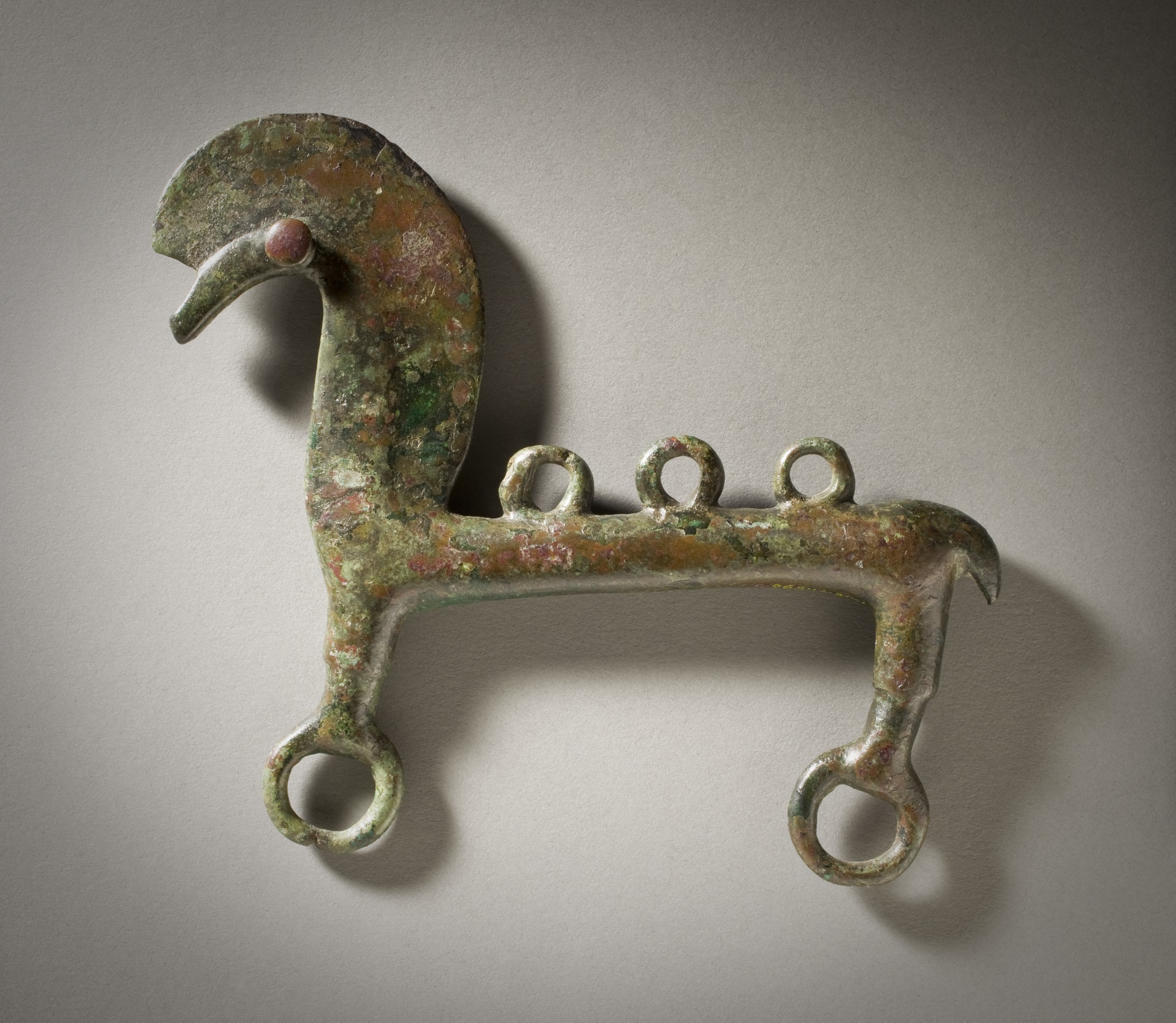 Unknown, Villanovan, 9th-8th century B.C. Tools and Equipment; horse trappings Bronze H: 4.65 in. (11.8 cn); W: 5.51 in. (14 cm) The Nasli M. Heeramaneck Collection of Ancient Near Eastern and Central Asian Art, gift of The Ahmanson Foundation (M.76.97.596) Greek, Roman and Etruscan Art Currently on public view: Hammer Building, floor 3